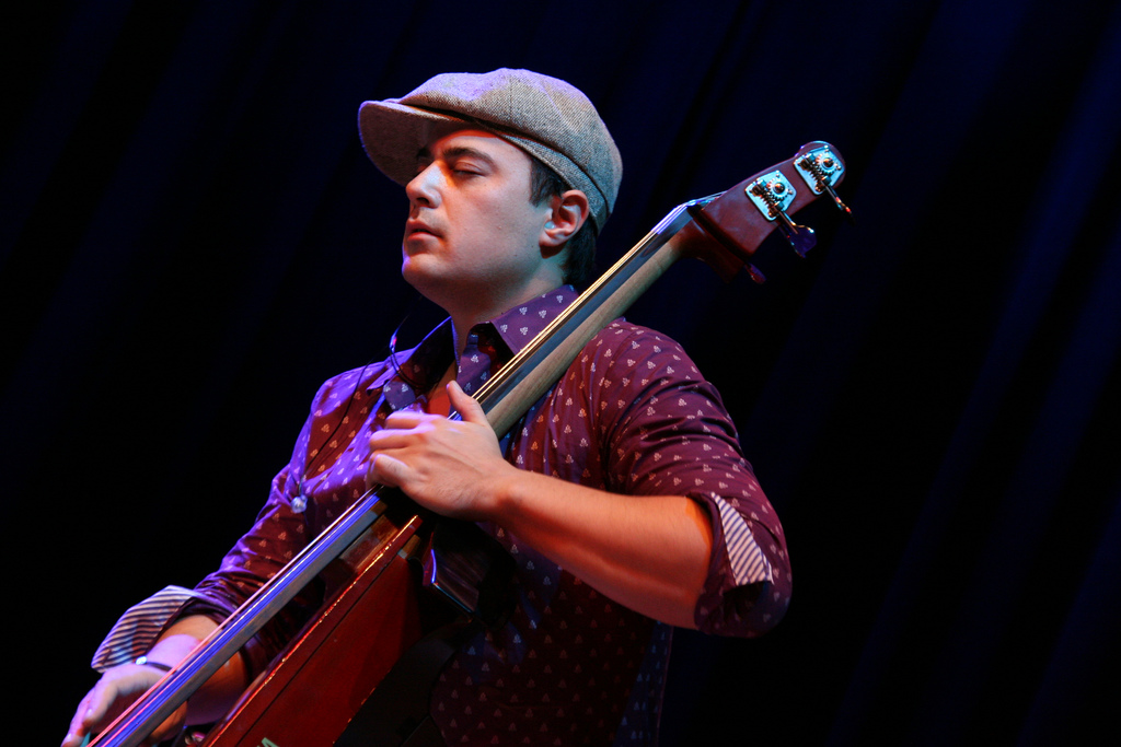 Chris Minh Doky with Mike Stern live @ Opderschmelz-Dudelange 2008